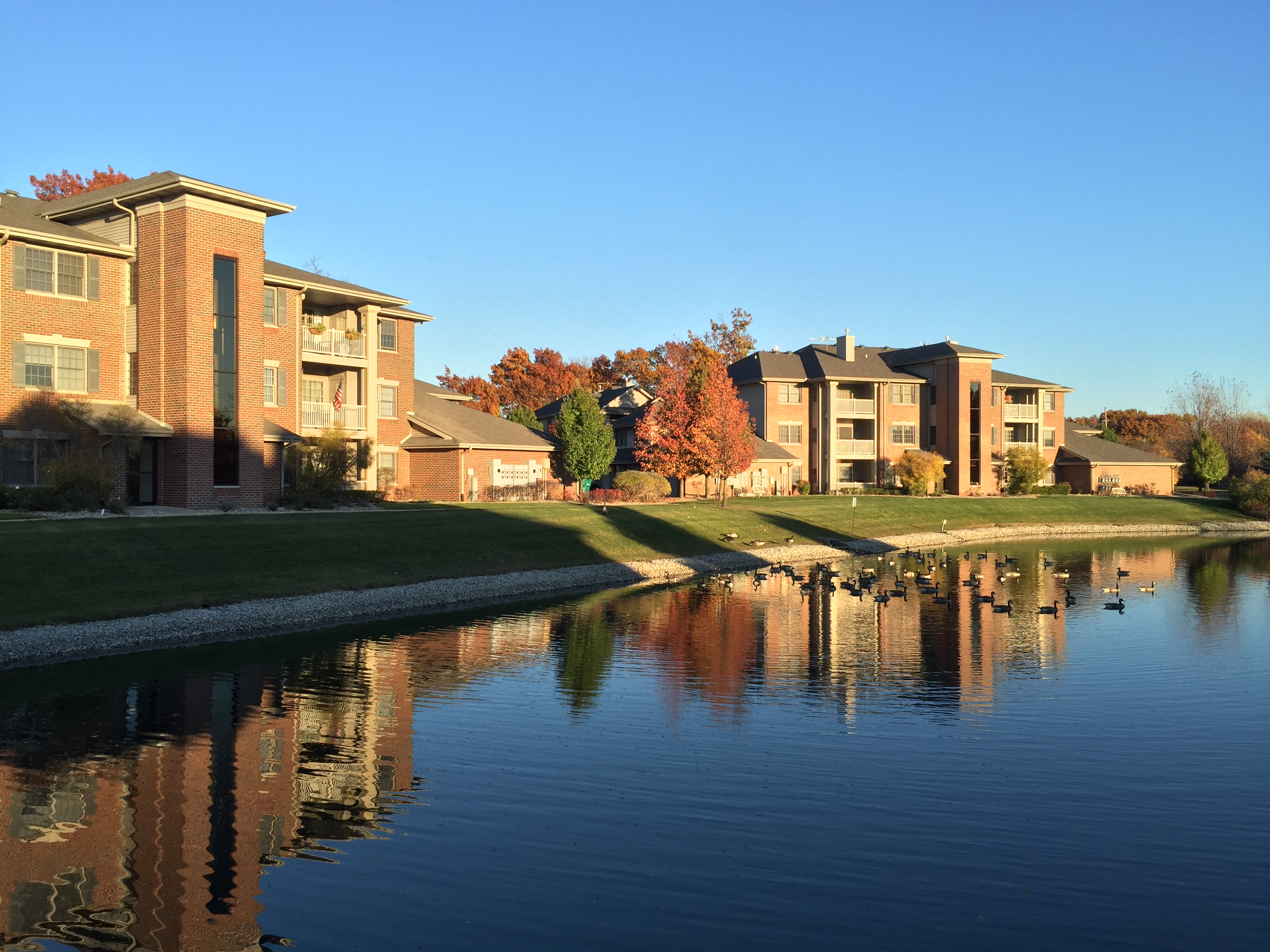 White Oak Woods apartment complex in Munster, Indiana.